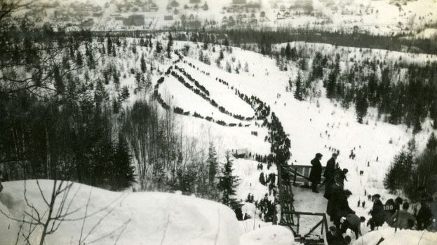 Big Hill during the Revelstoke Winter Carneval in 1921